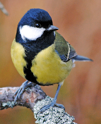 Parus major in Tolkuse bog, Estonia.